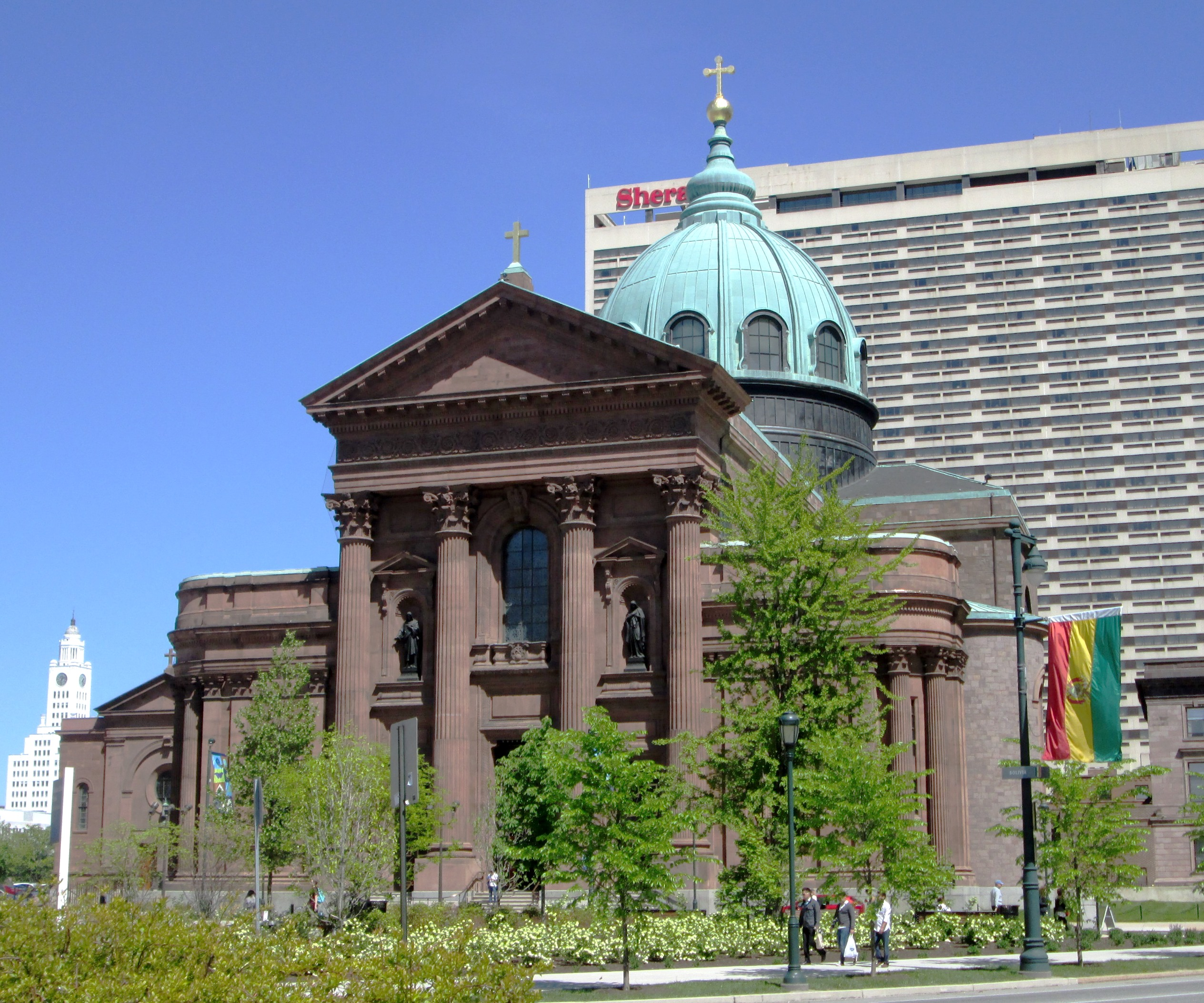 The Cathedral Basilica of Saints Peter and Paul, head church of the Roman Catholic Archdiocese of Philadelphia, is located at 18th Street and the Benjamin Franklin Parkway, on the east side of Logan Circle in Philadelphia, Pennsylvania. It was built from 1846-1864 and was designed by Napoleon LeBrun – from original plans by Reverends Mariano Muller and John B. Tornatore – with the dome and Palladian facade designed by John Notman and Rev. John T. Mahoney added after 1850.[2] The interior was largely decorated by Constantino Brumidi. The cathedral is the largest Catholic church in Pennsylvania, and was listed on the U.S. National Register of Historic Places in 1971. (Source: Philadelphia Architecture: A Guide to the City (2nd ed.)